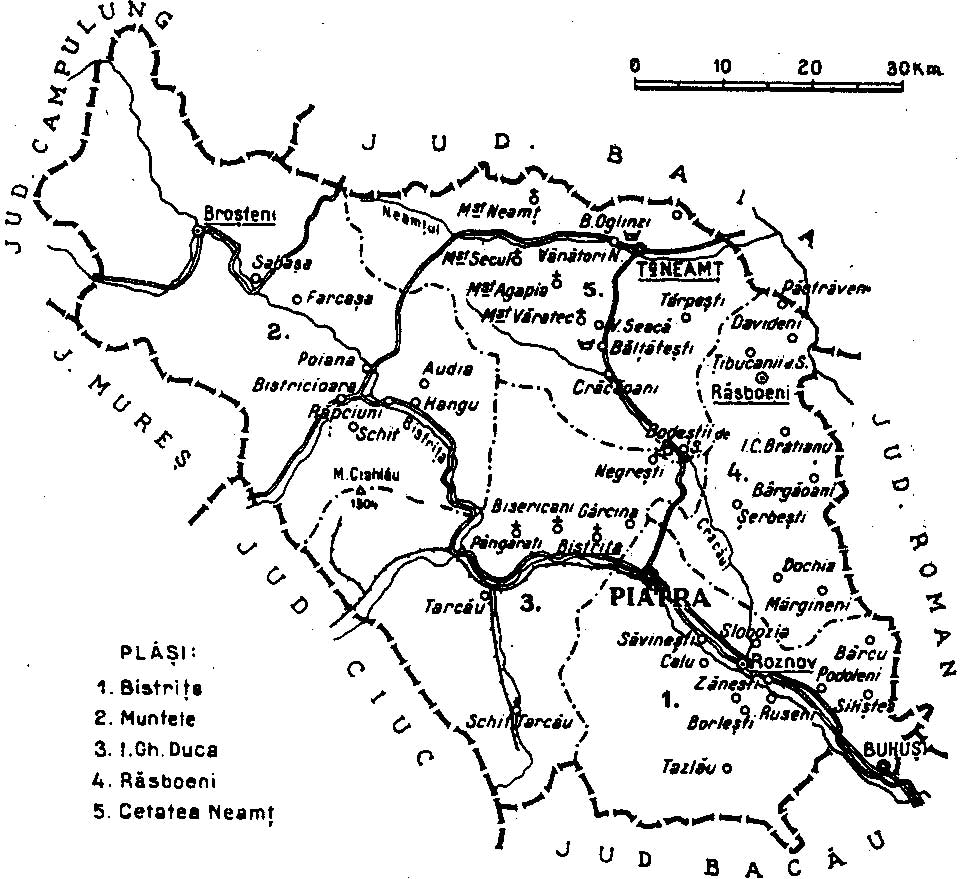 Map of Neamț interwar county, Kingdom of Romania (1938).